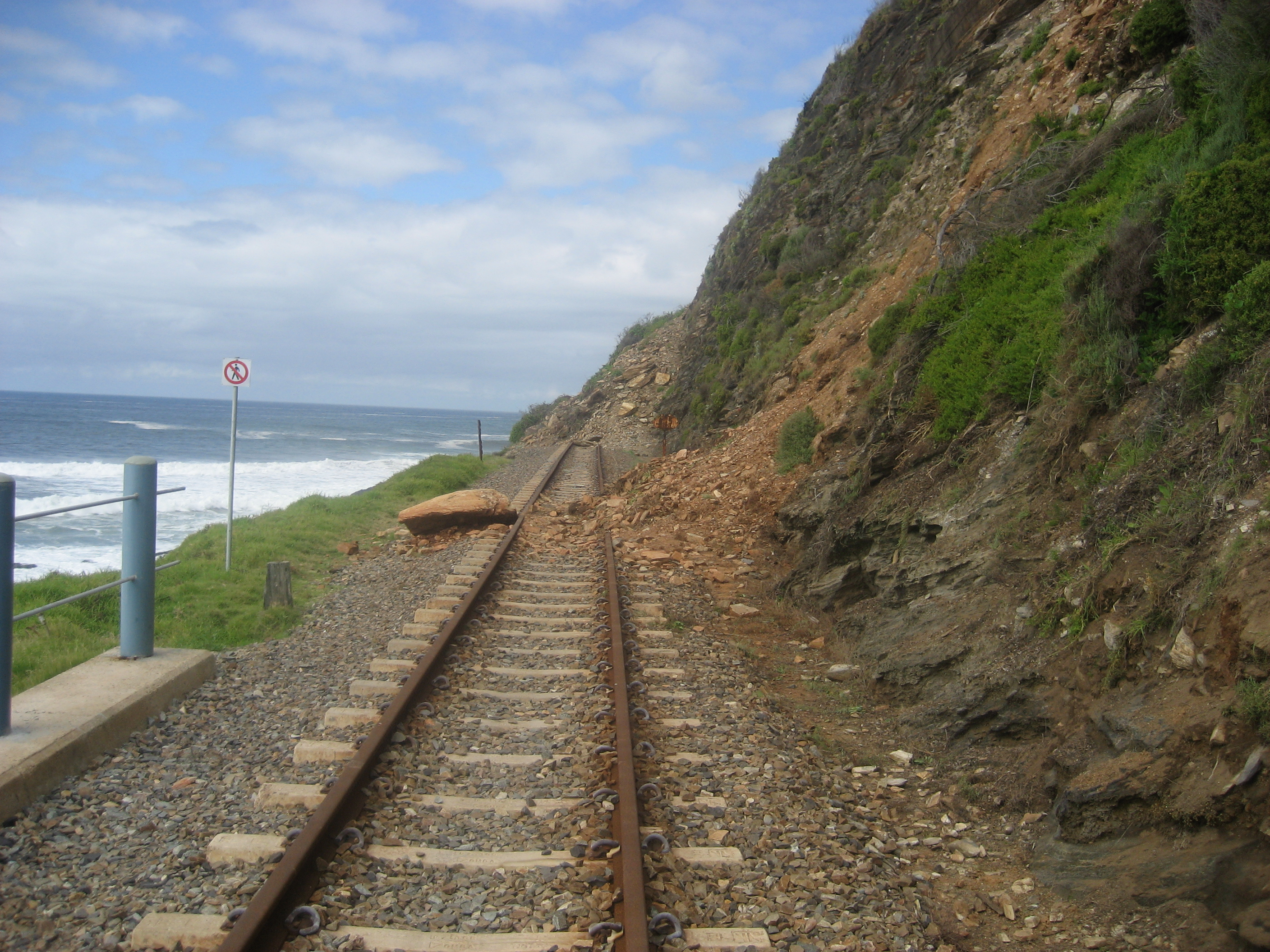 The damages under the Kaaimans Pass at the George-Knysna-Line